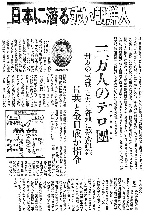 Yomiuri Shimbun newspaper clipping (30 March 1952 issue)